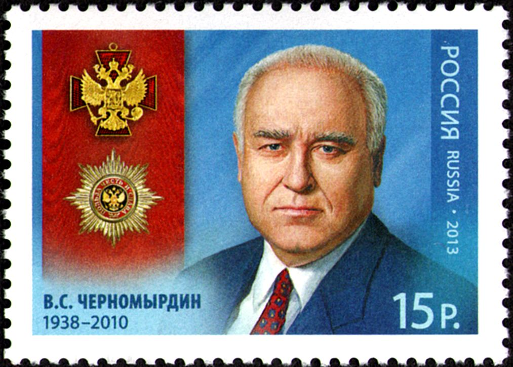 Recipients of the Order For Merit to the Fatherland (the ongoing stamp series, issue II).Full Cavalier of the Order For Merit to the Fatherland Viktor Chernomyrdin (1938–2010), a Soviet and Russian statesman, a Minister of Gas Industry of the USSR (1985–1989), the founder and the first President of the State Gas Concern Gazprom (1989–1992), a Prime Minister of the Russian Federation (1992–1998), an Ambassador of Russia to Ukraine (2001–2009).There depicted the cross and the star of the Order For Merit to the Fatherland 1st class on the left. The stamp of Russia, 15.00 Rubles, 14 March 2013, PTC Marka Catalogue No 1687, Michel No 1919. Coated paper. Offset printing. Perforation: comb 12½×12. Size of the stamp: 42×30 mm. Print run: 392,000.